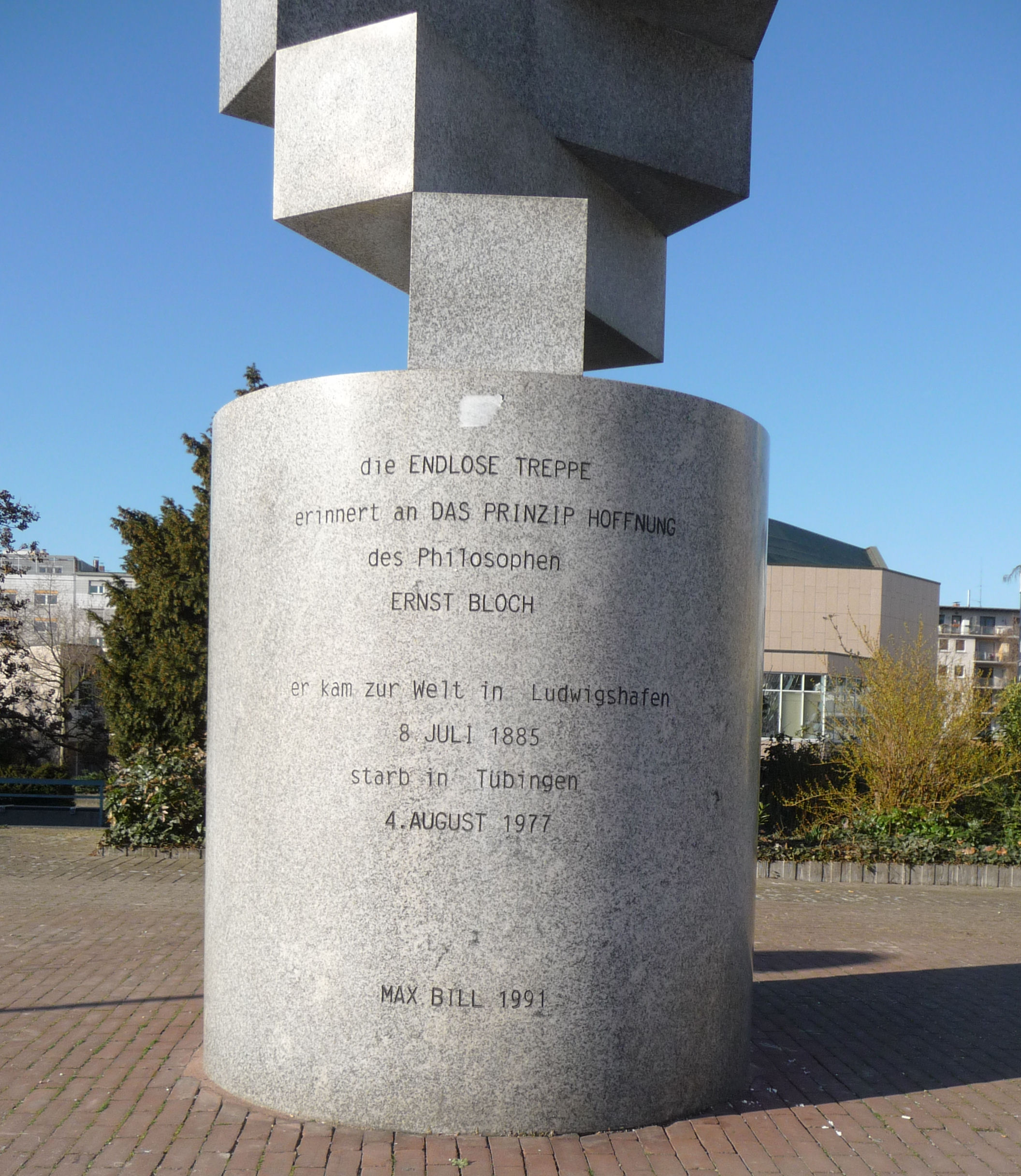 Sculpture in Ludwigshafen, Germany